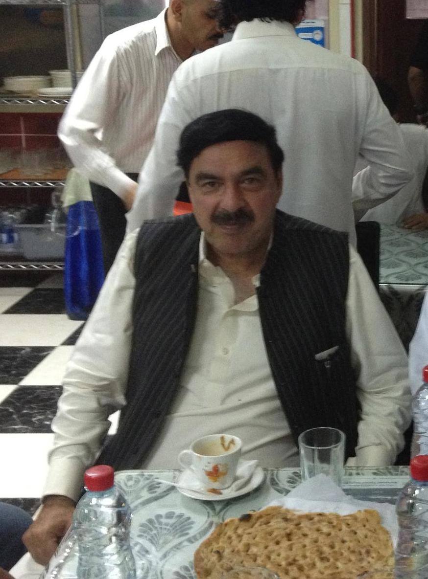 Malik Khurshid with Shaikh Rasheed